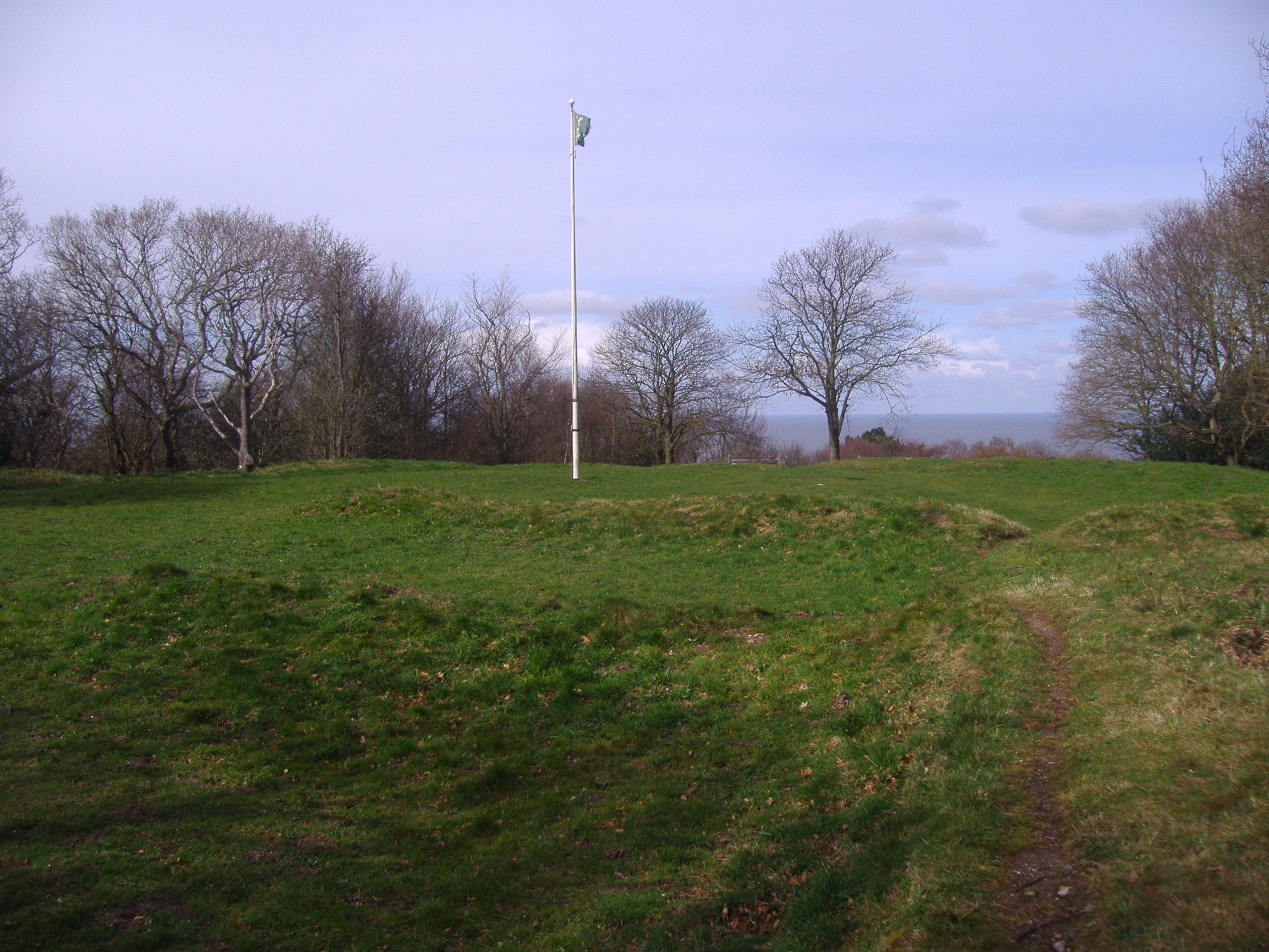 A Digital Photograph of the summit of Beacon hill the highest point in Norfolk taken by Stavros1 (talk) 14:24, 6 April 2008 (UTC)